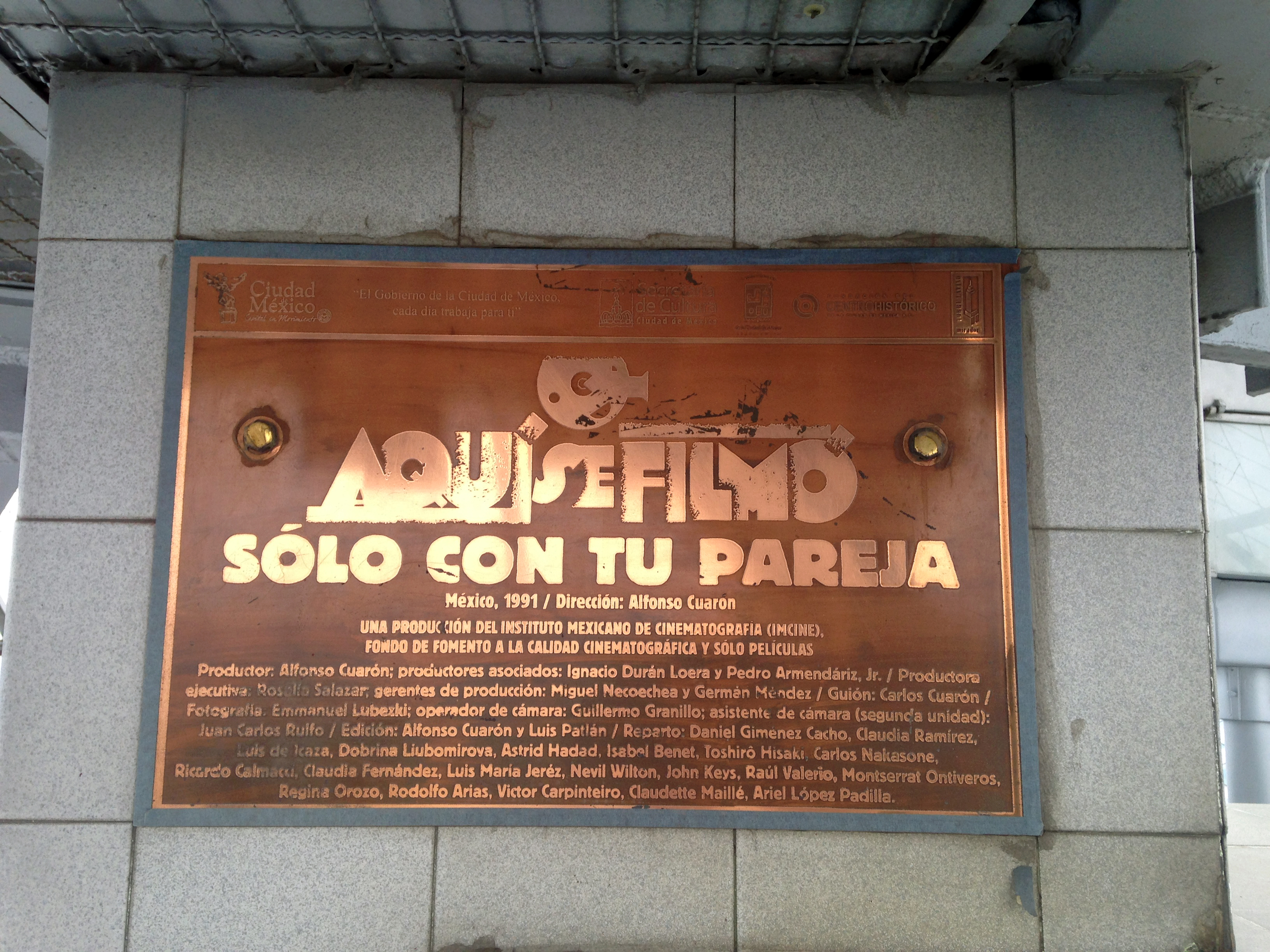 1990's "Solo con tu pareja" film commemoration plaque, Torre Latinoamericana, Mexico City.